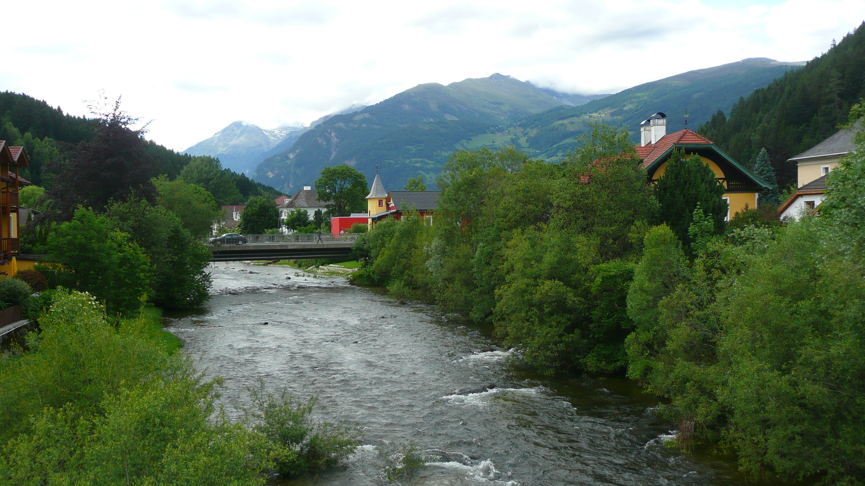 River Malta in Carinthia, Austria, just before flowing into the Lieser